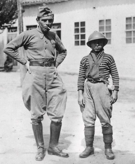 Guilherme de Almeida in the Constitutionalist Revolution of 1932